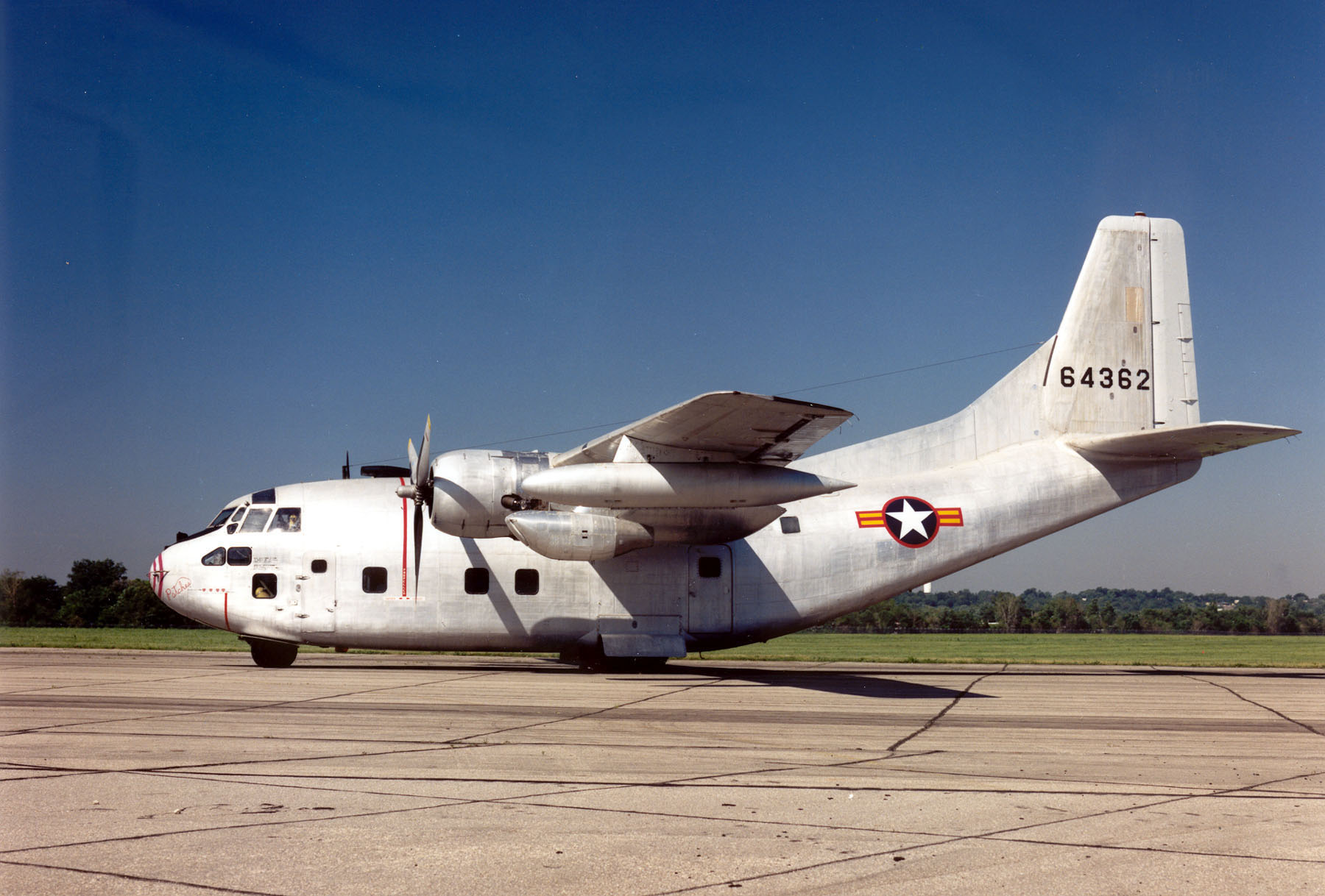 The Fairchild C-123K Provider of the USAF Museum (s/n 56-4362) on display saw extensive service during the Southeast Asia War as a sprayer, and Ranch Hand personnel developed a strong symbolic attachment to this aircraft. The aircraft took almost 600 hits in combat, and it was named Patches for the damage repairs that covered it. Moreover, seven of its crew received the Purple Heart for wounds received in battle. It is painted in South Vietnamese colours, as were used when the aircraft flew "Ranch Hand"-missions. Patches was accepted by the USAF in 1957 as a C-123B, and it went to Vietnam in 1961 to fly as a low-level defoliant sprayer. In 1965, it was redesignated to UC-123B. In 1967, Patches became a dedicated insecticide sprayer to control malaria-carrying mosquitoes, and in 1968, Fairchild converted it to a UC-123K. Patches came back to the U.S. in 1972, and served in the Air Force Reserve as a C-123K until it was retired to the museum in 1980.